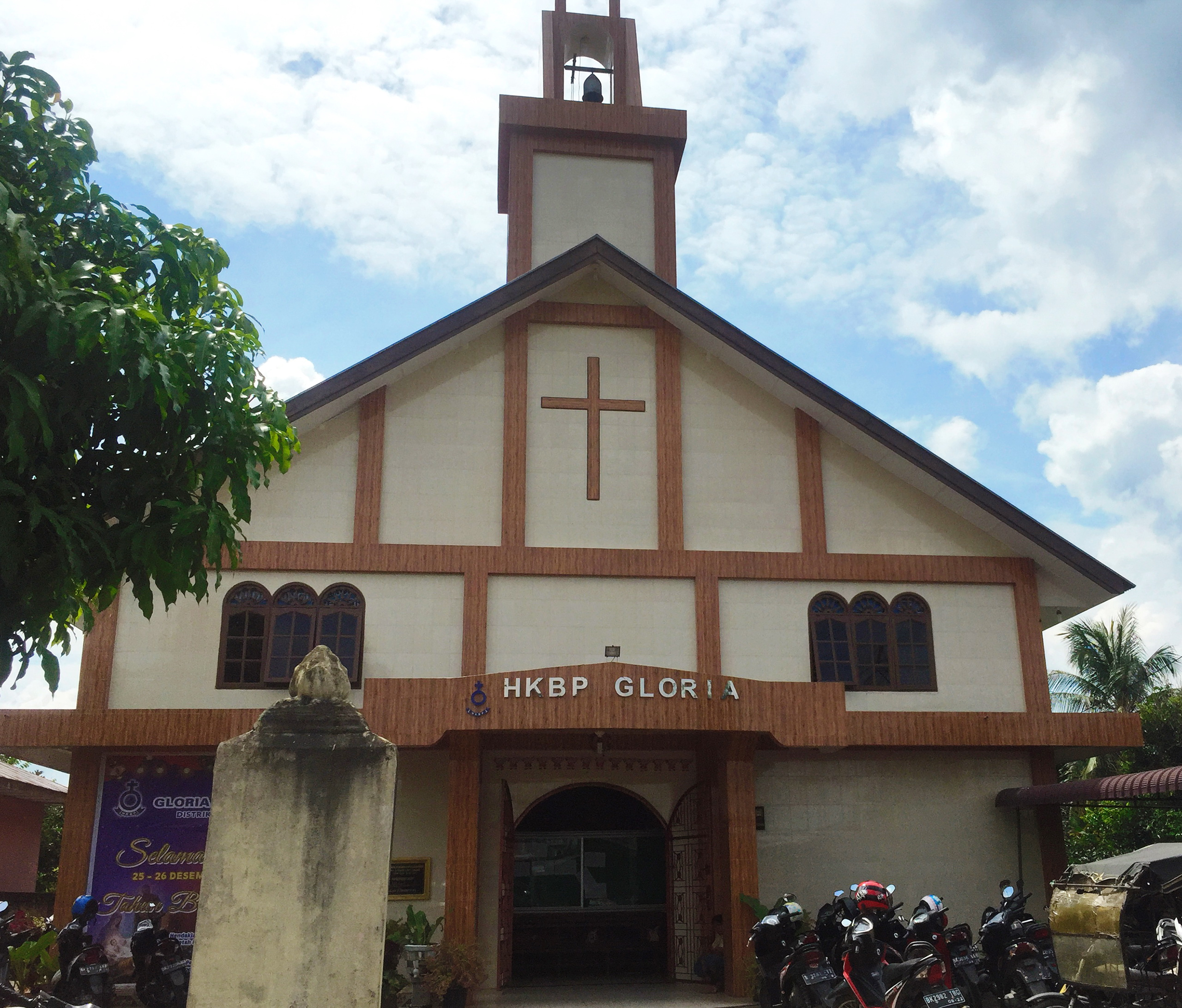 HKBP Gloria, Church in Pelita, Bajenis, Tebing Tinggi, North Sumatra